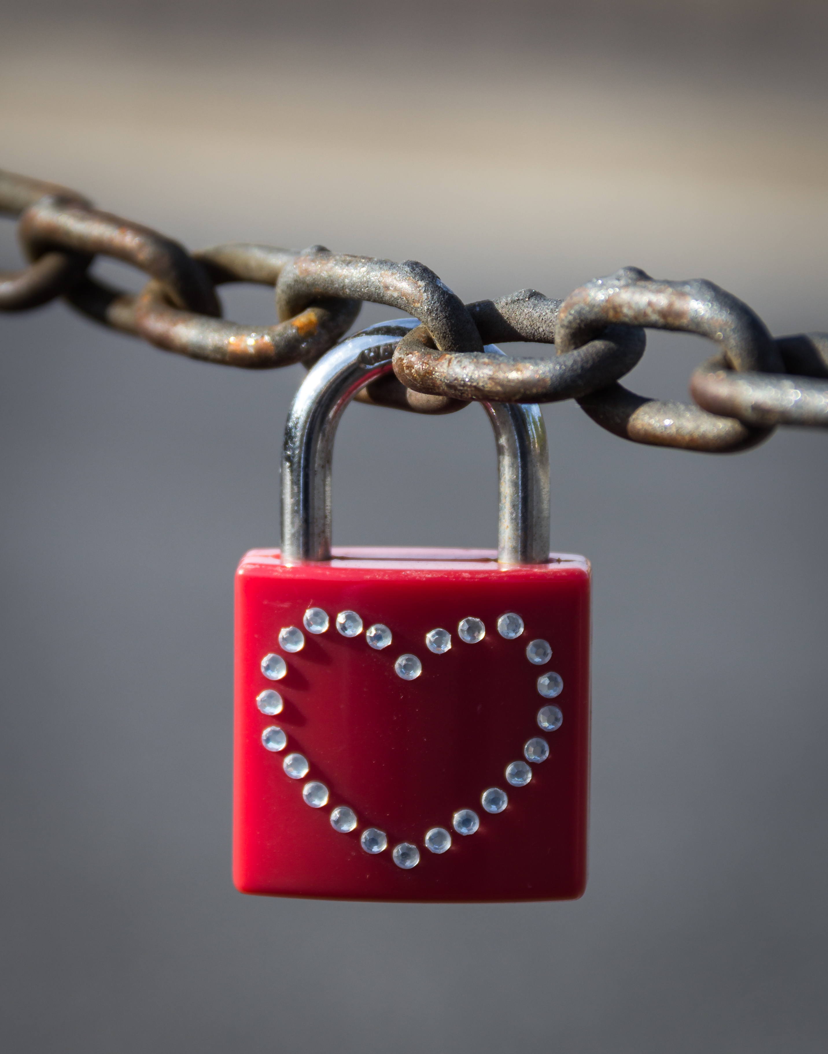 Padlock on the Ponte Palatino in Rome, Italy